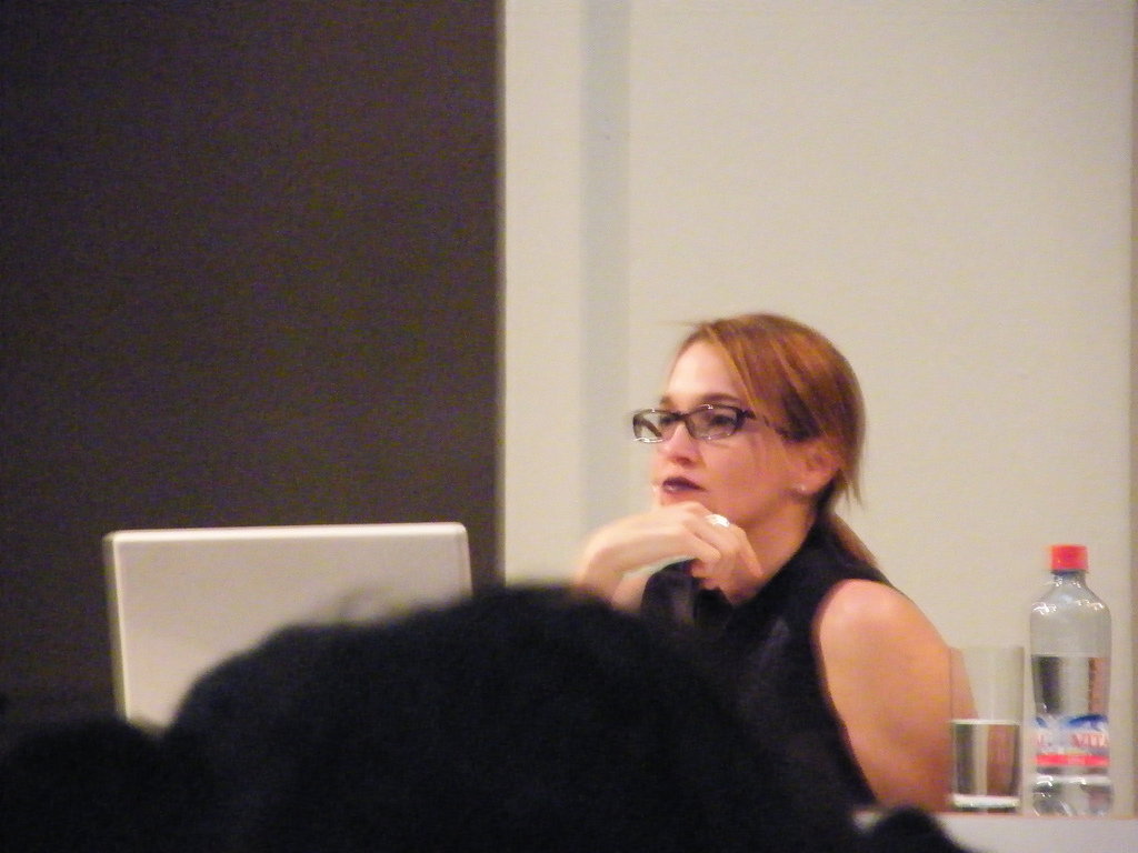 Fotografía de Tatiana Bilbao.